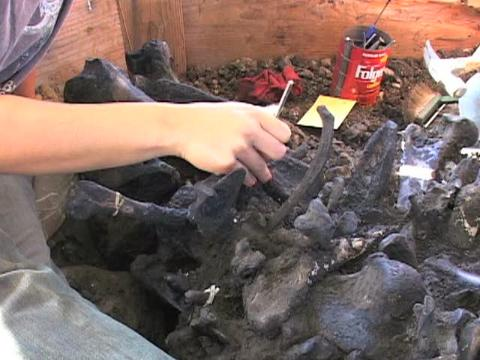 Fossil being excavated at La Brea Tar Pits in Los Angeles